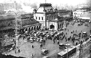 Osaka Station (the second depot, front).